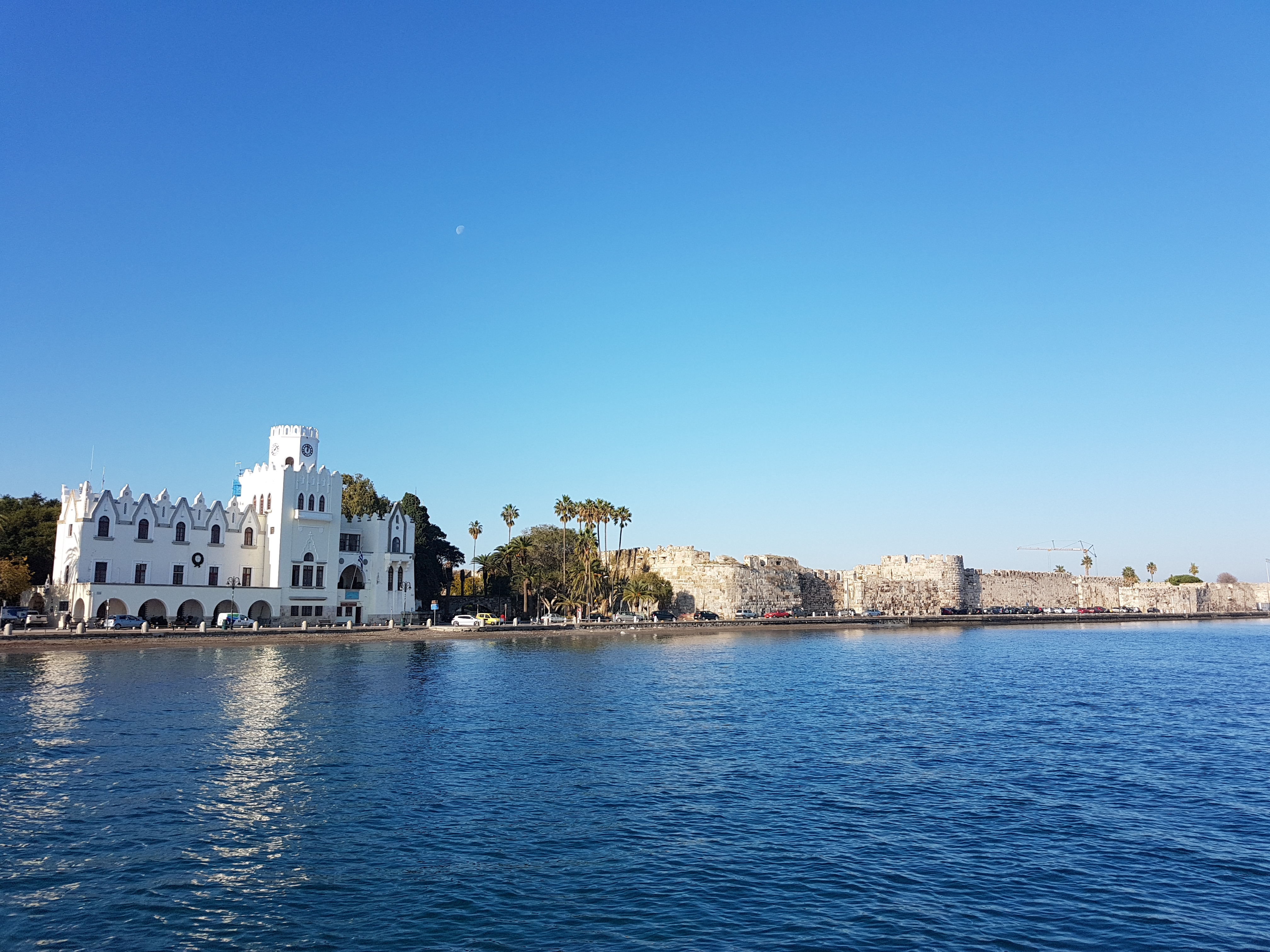 The Governor's Palace of Kos (Greek: ΔΙOΙΚΗΤΗΡΙO, also: Pallazzo del Governo, Eastern Coastal Building) is located in the city of Kos on the island of Kos (Dodecanese) Architect Florestano Di Fausto planned, built from 1927 to 1930 and today houses the police and the court of Kos as well as administrative units of the island of Kos.